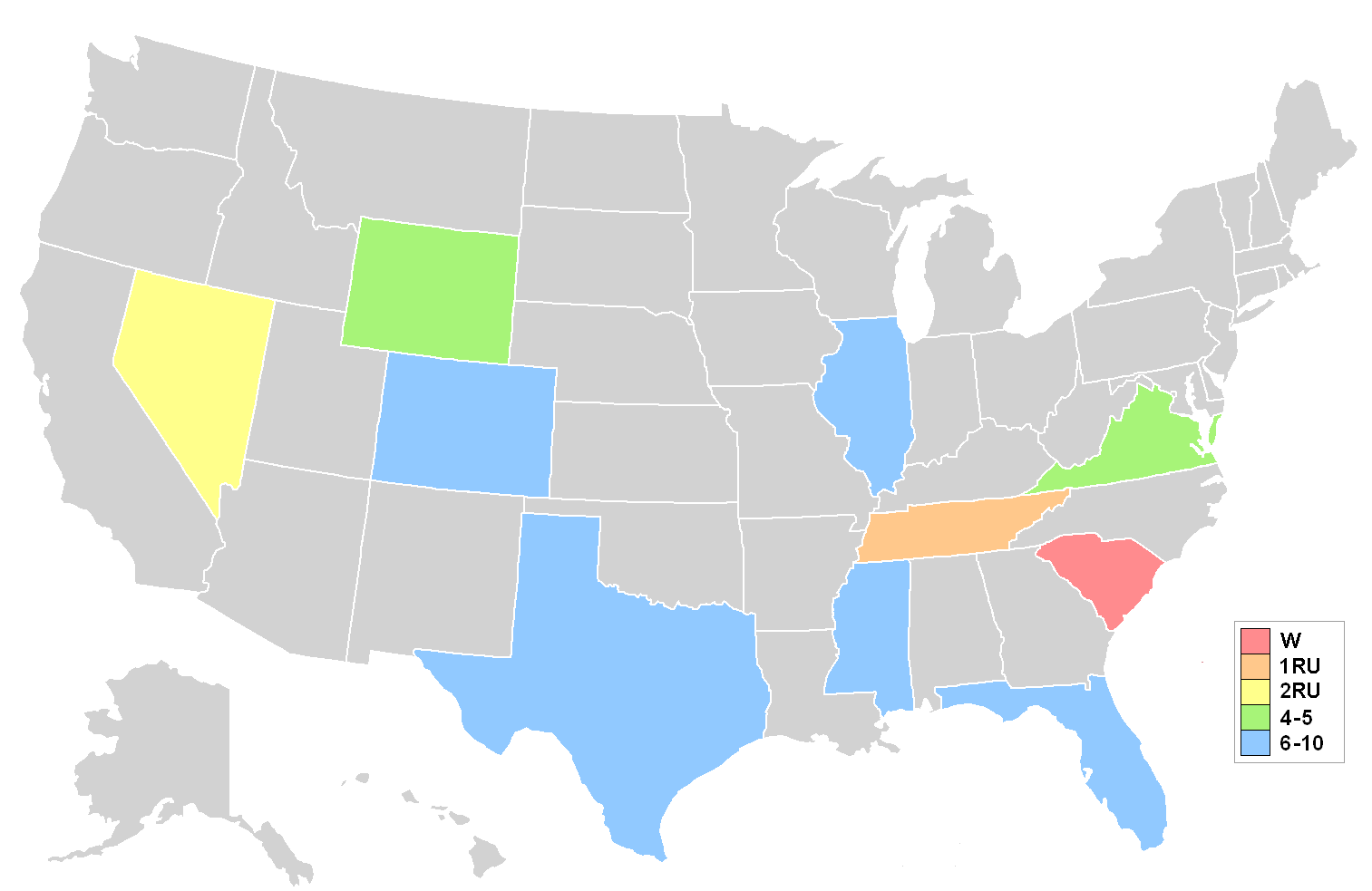 Map showing placements at the Miss Teen USA 1998 pageant. Key on graphic shows colour coding for break down of placements.